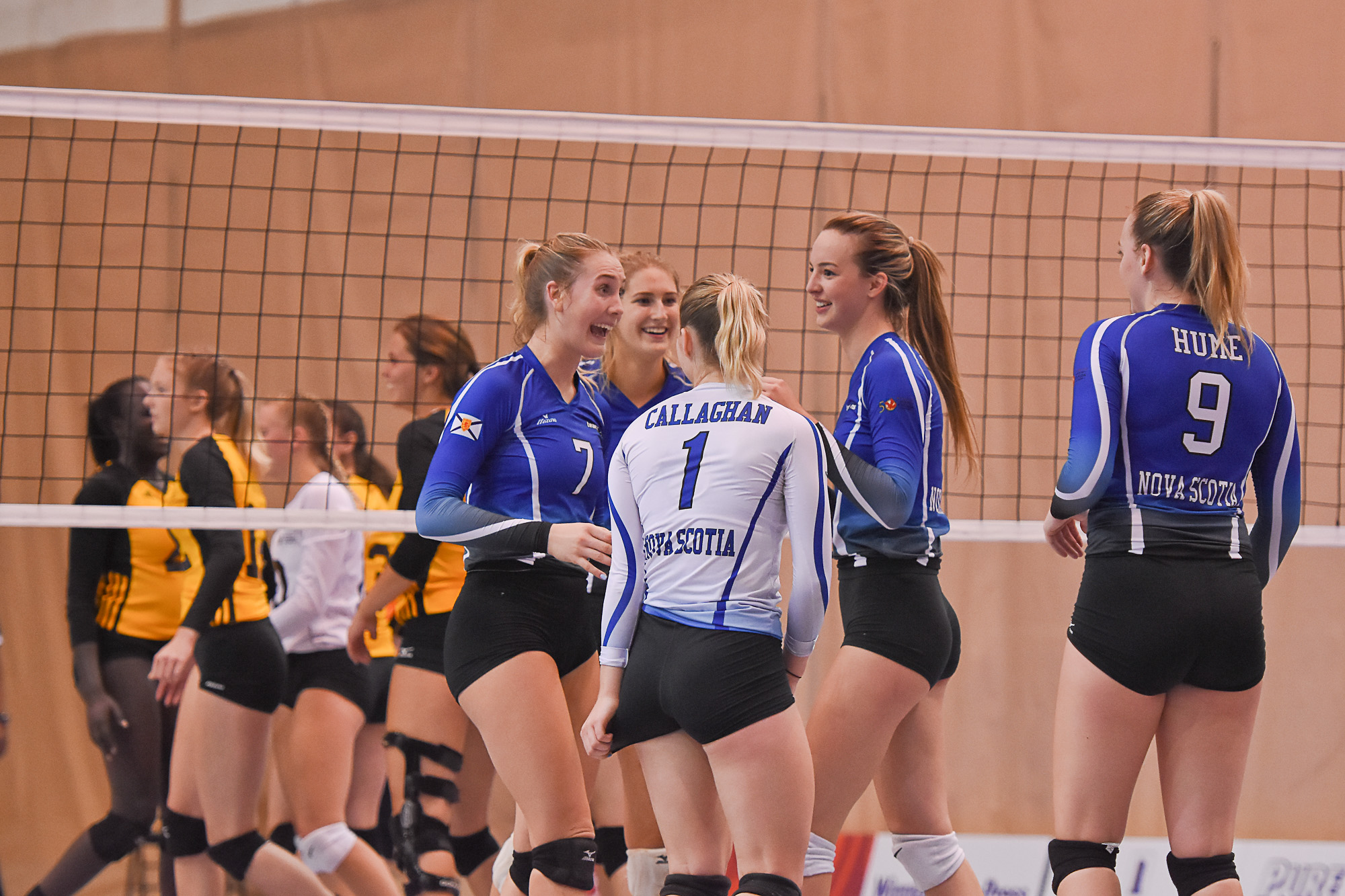 Canada Summer Games by Steve Carmichael - Women's Volleyball in 2017